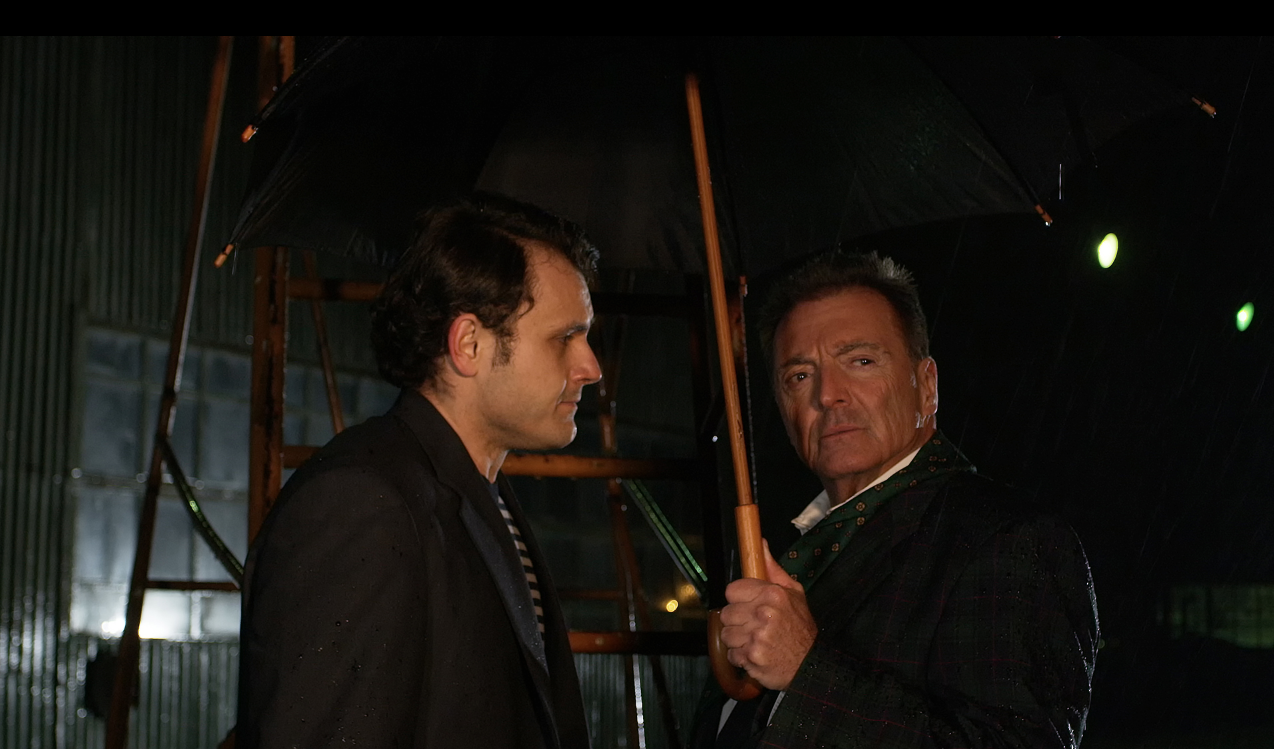 Andrej Dojkic and Armand Assante ”I wasn't afraid to die”.